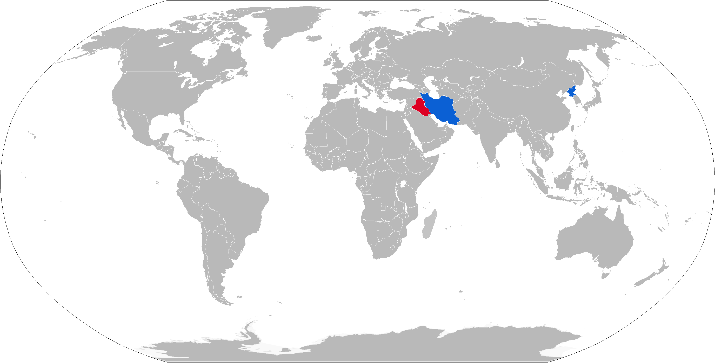 Map with Koksan operators in blue